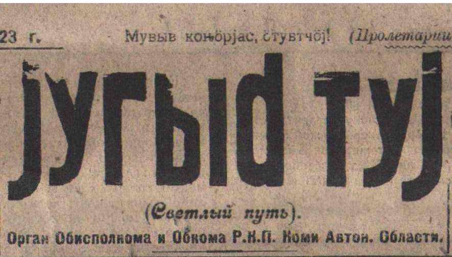 Logo of Jугыd туj newspaper